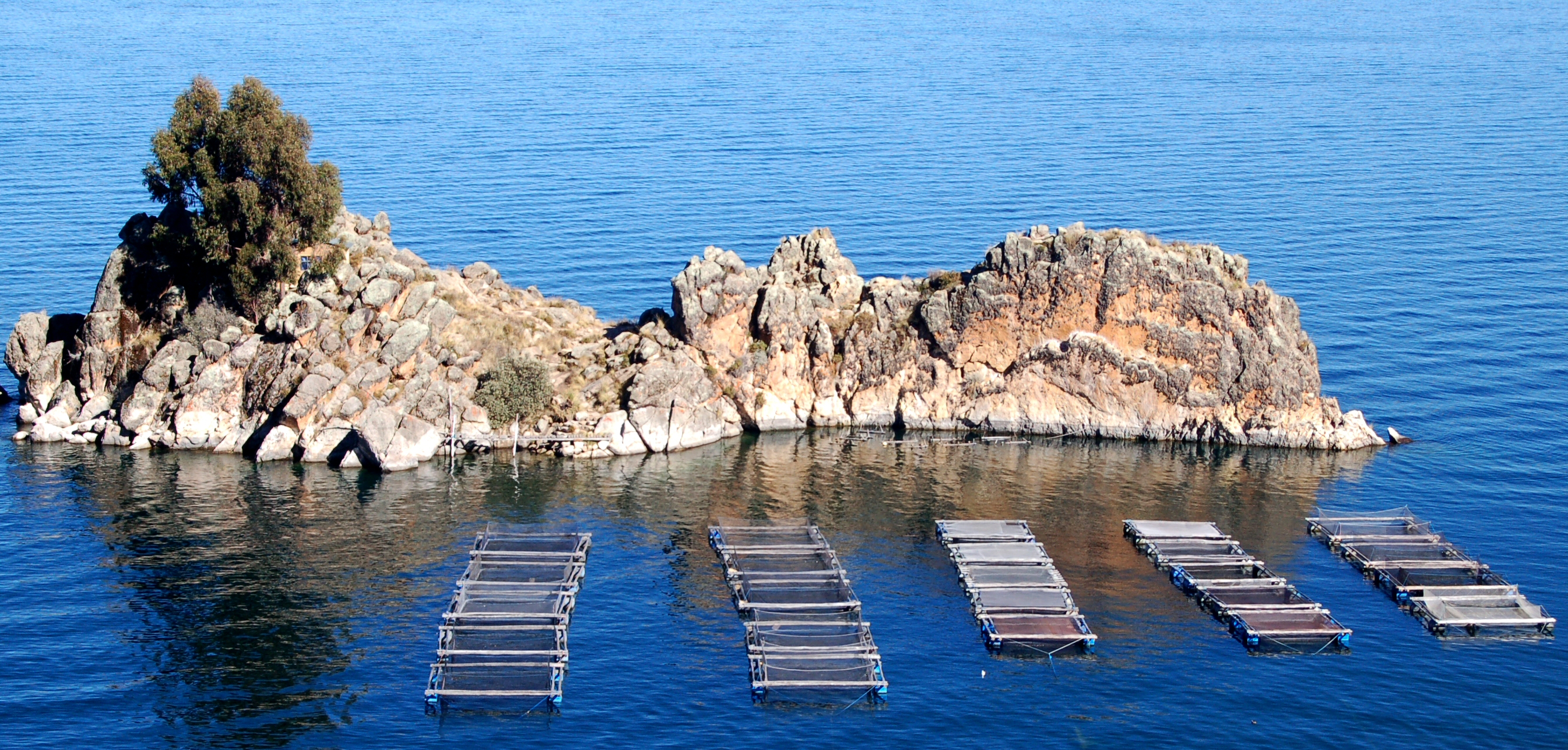 Fish farming on Lake Titicaca. Runa Simi: Challwa, Titiqaqa qucha.